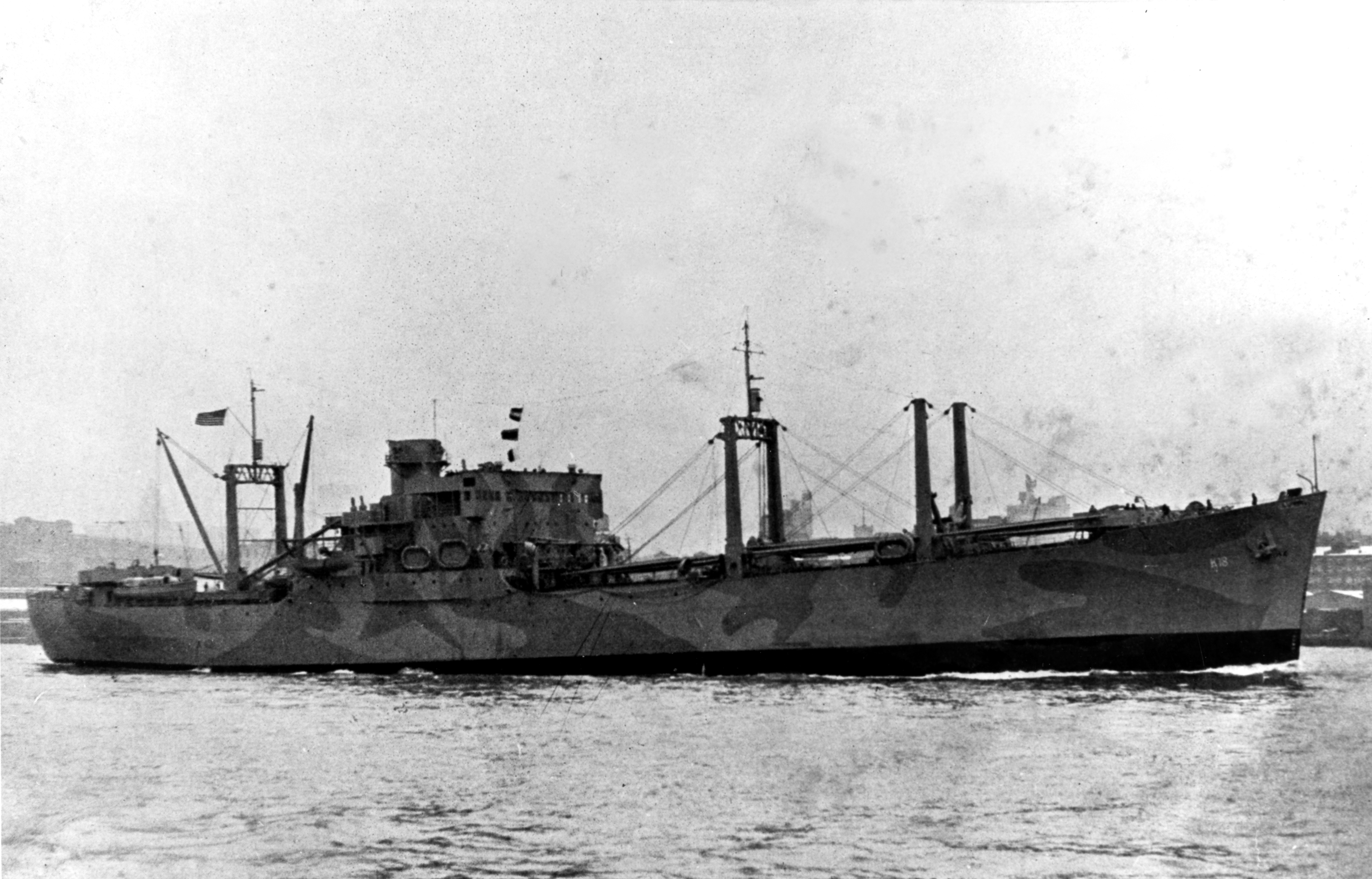 The U.S. Navy cargo ship USS Arcturus (AK-18), in 1942.